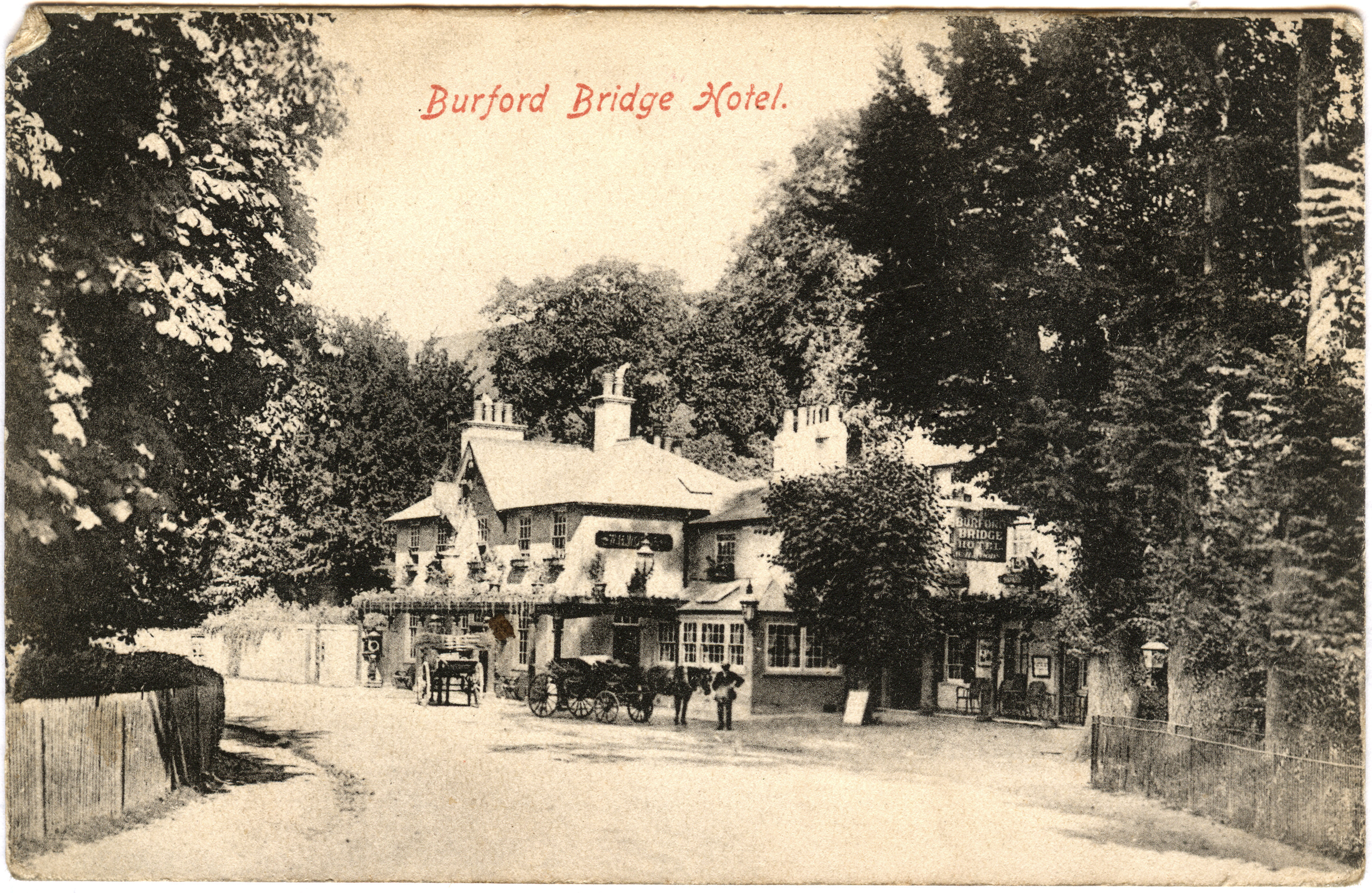 Postcard of the Burford Bridge Hotel, Mickleham, about 1917.